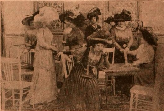 A surviving film still from She's Done it Again. Released by the Thanhouser Company in 1910.